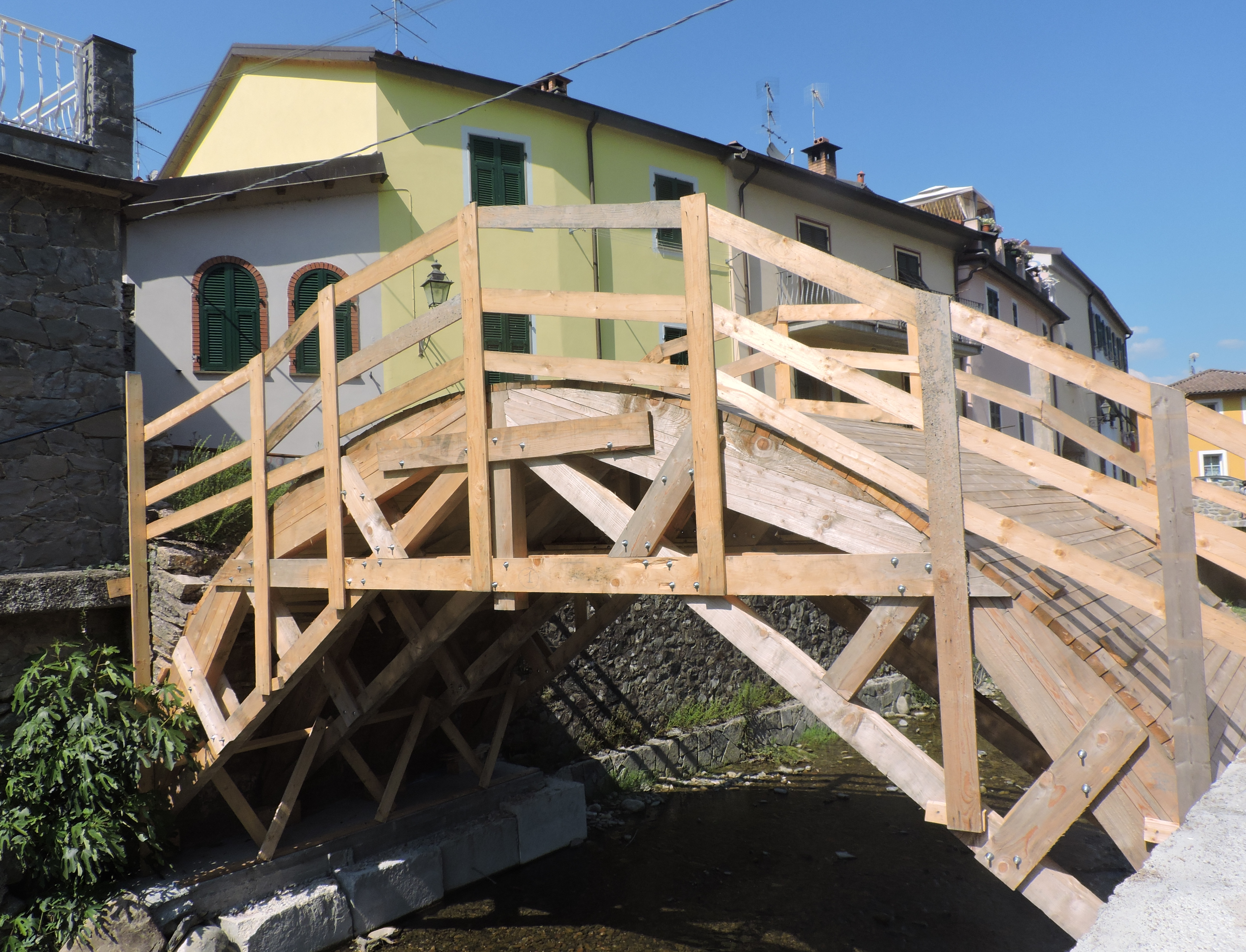 Old bridge in Pignone (SP, Italy) - june 2018 reconstruction works